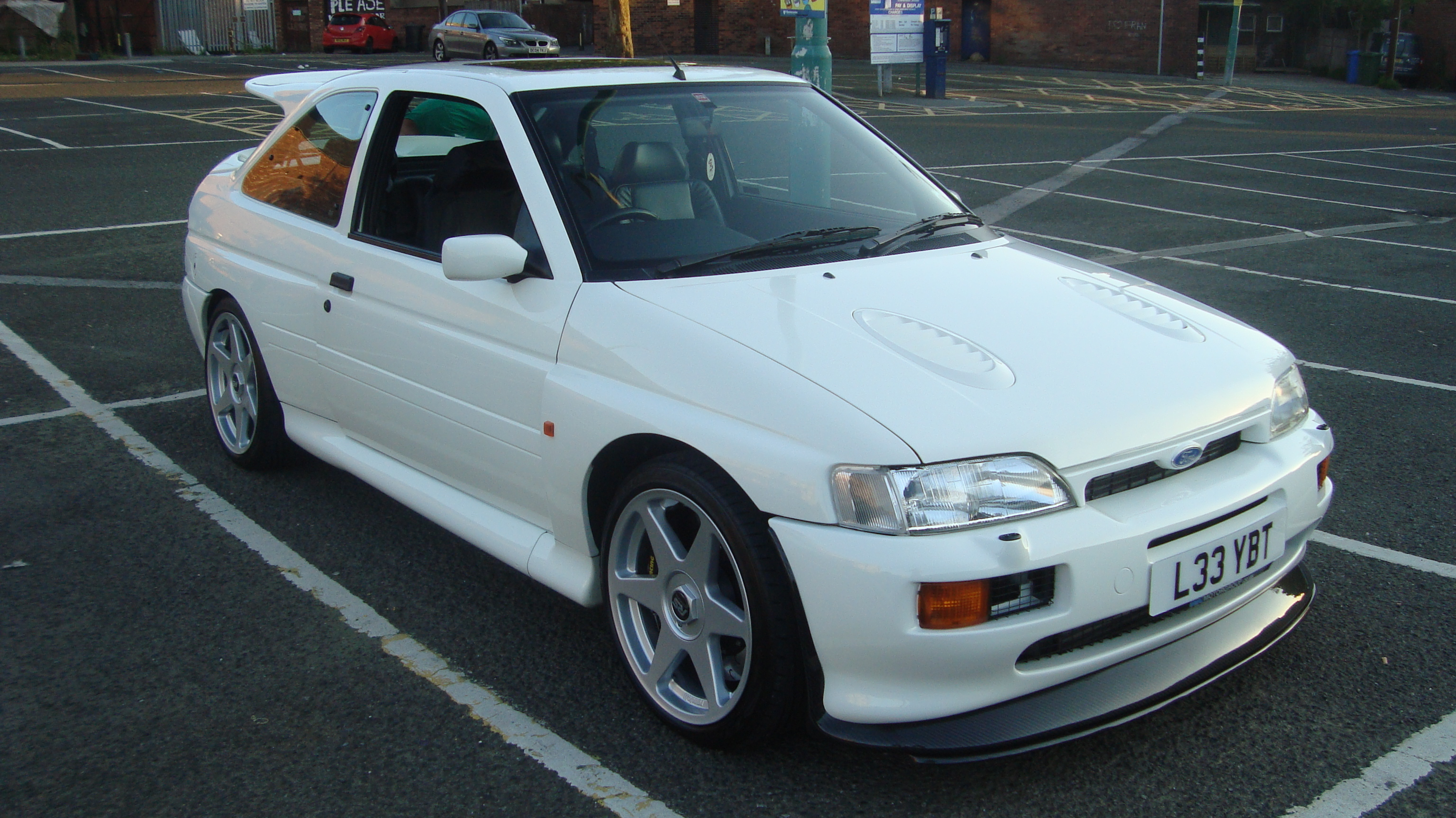 This was immaculate and had a gorgeous leather Recaro interior, the owner even let me have a sit in it, such a nice guy